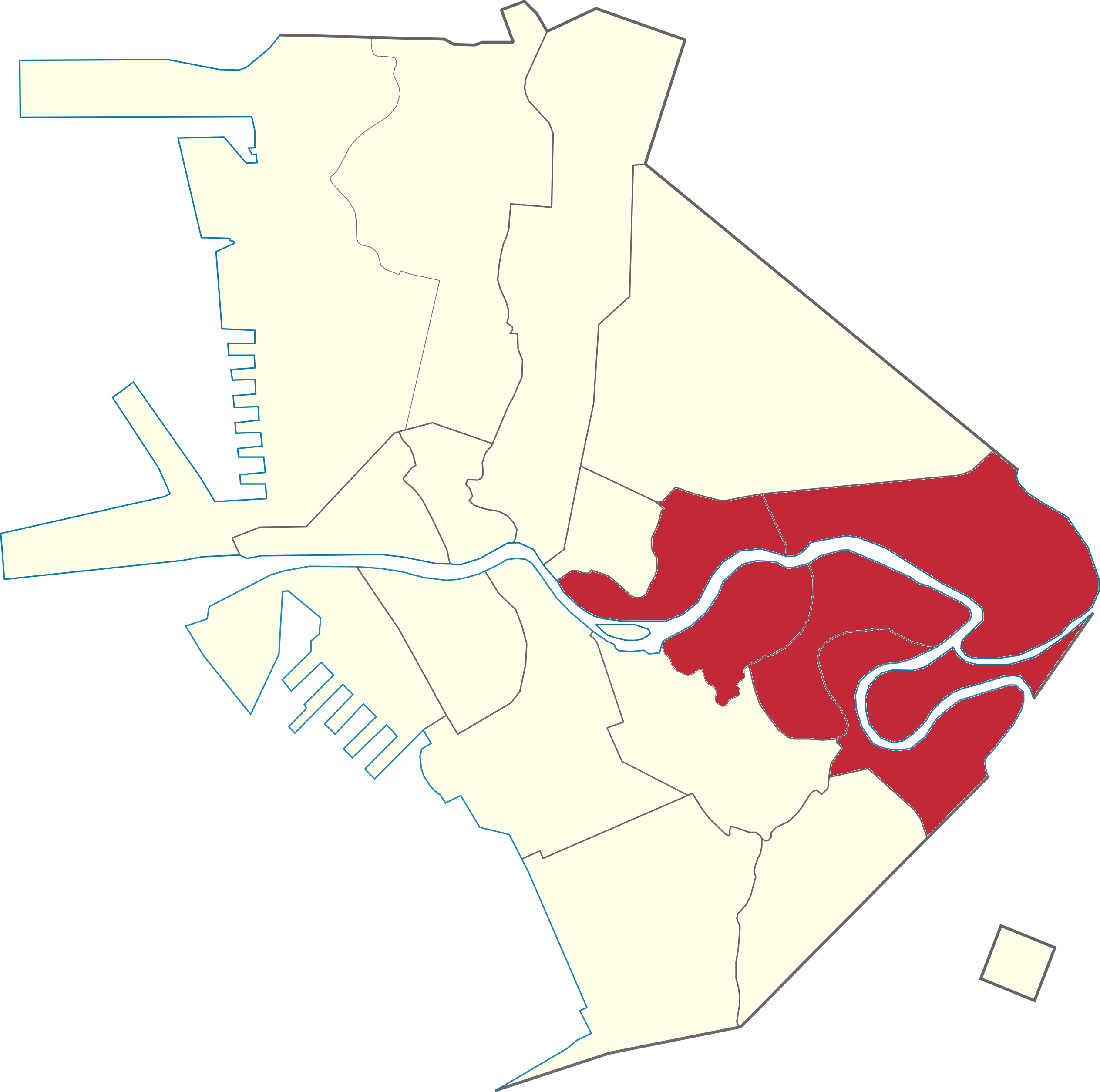 Location of the 6th Legislative district of Manila.